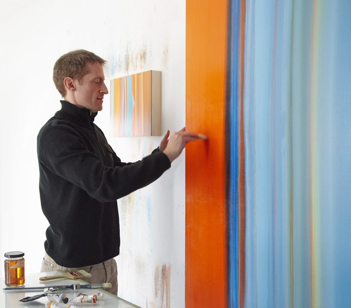 Artist Willy Bo Richardson in the studio. Santa Fe. ca. 2012. photo credit © Jen Fong